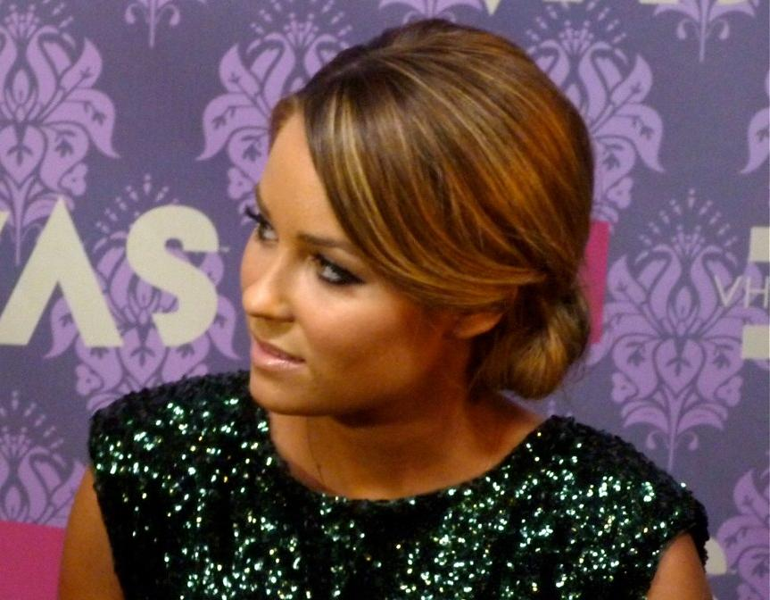 Lauren Conrad on the Red Carpet at Vh1 Divas 2009.